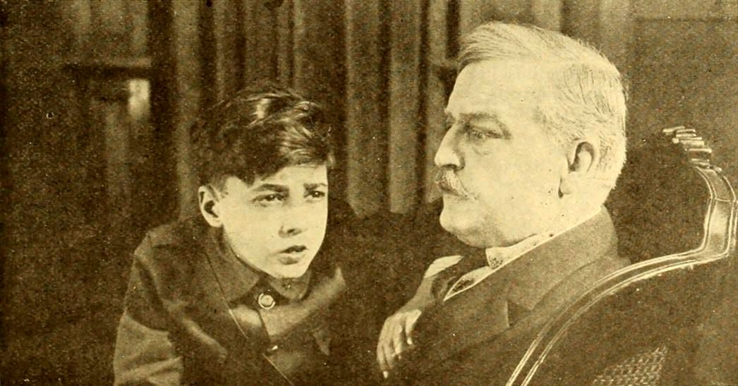 Still from the American film Satan on Earth (1919) with child actor Freddie Verdi and Bigelow Cooper (1867 – 1953), on page 939 of the February 15, 1919 Moving Picture World.